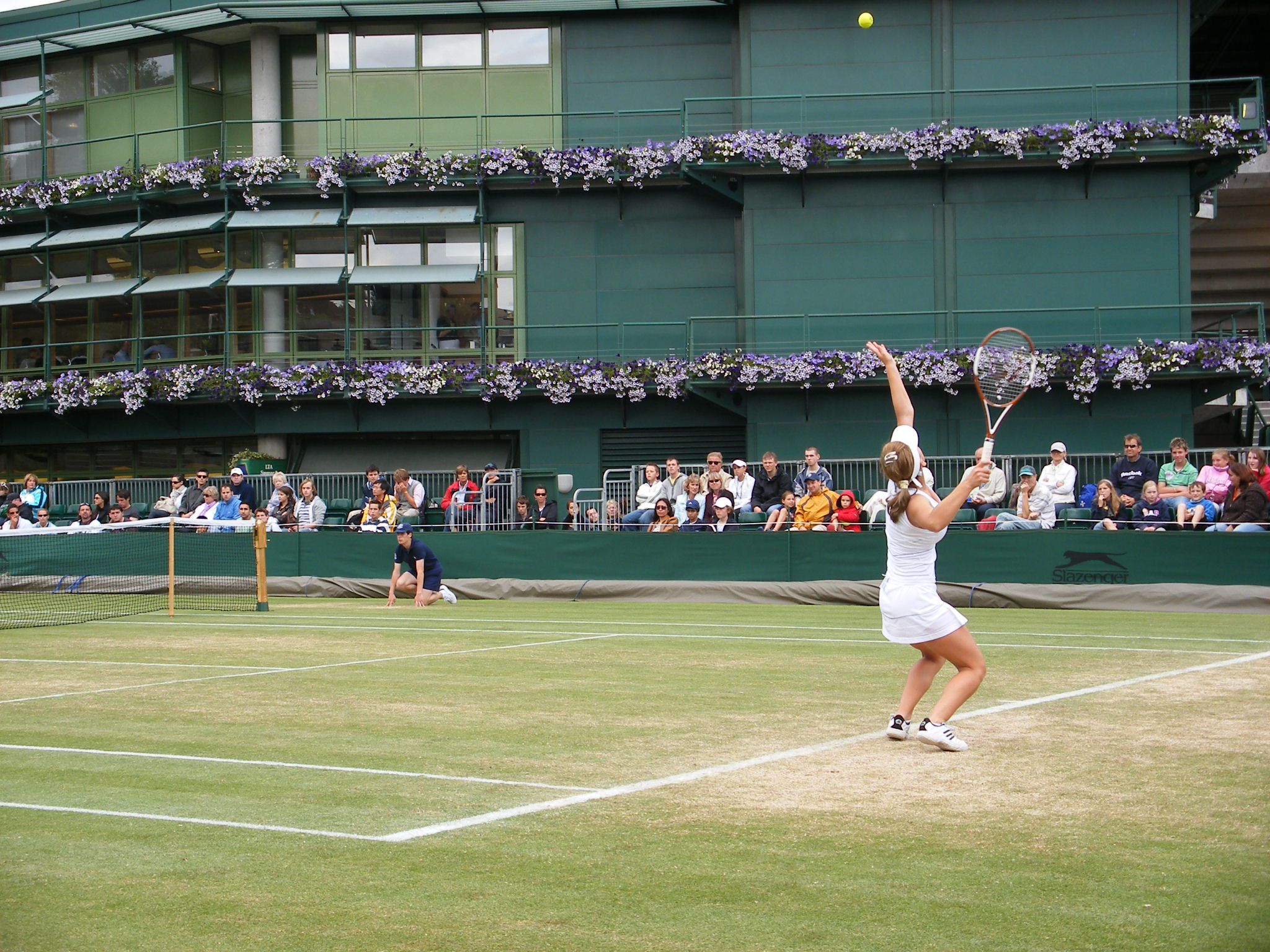 Girls' Singles match at Wimbledon, on Court 19. Romanian player Simona Halep serves, in a match she won 6-2 6-1.